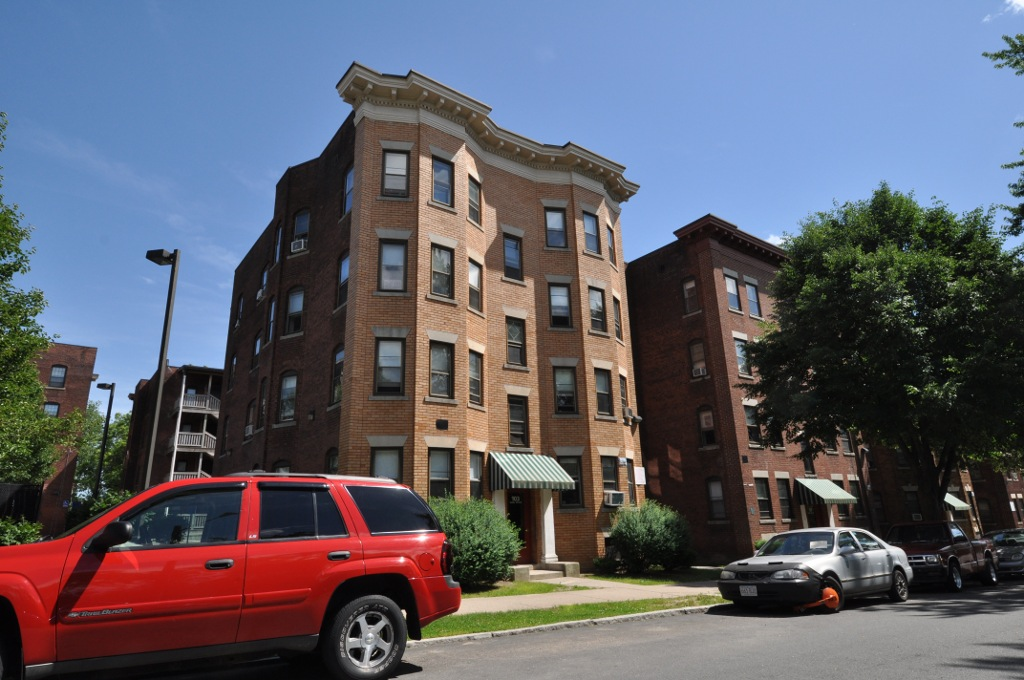 Belle Street, Springfield MA; part of the Belle and Franklin Streets Historic District